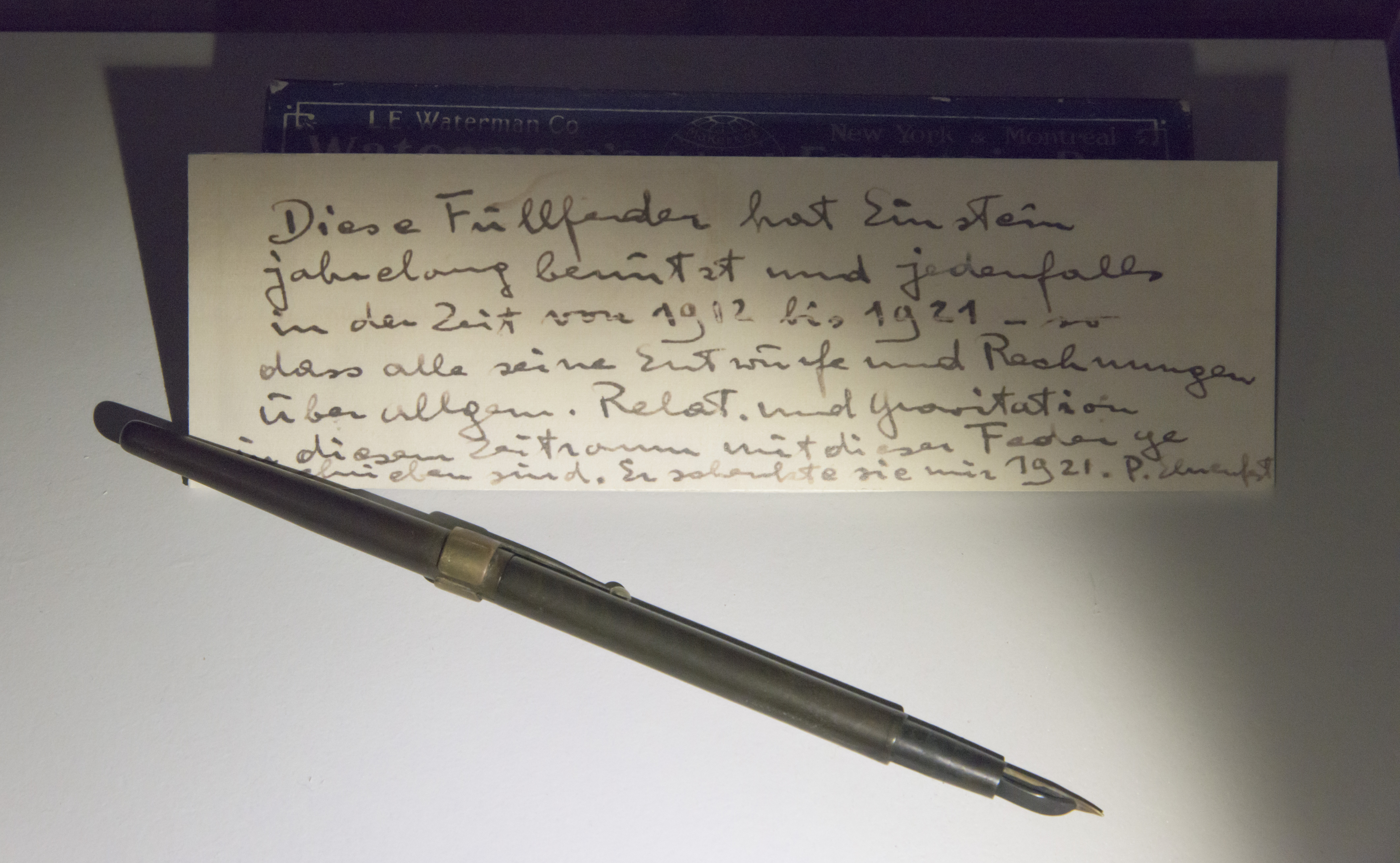 Pen of Einstein with which he supposedly wrote his famous equation of energy to mass, on display at the Museum Boerhaave, Leiden, NL.